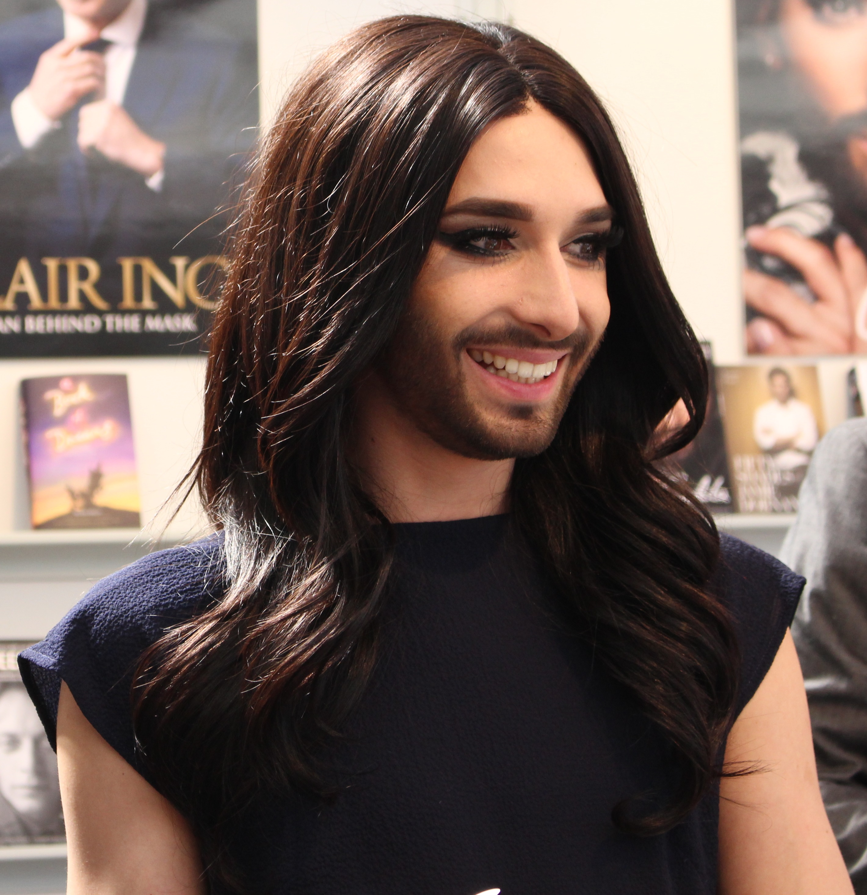 Conchita Wurst - London Book Fair 2015